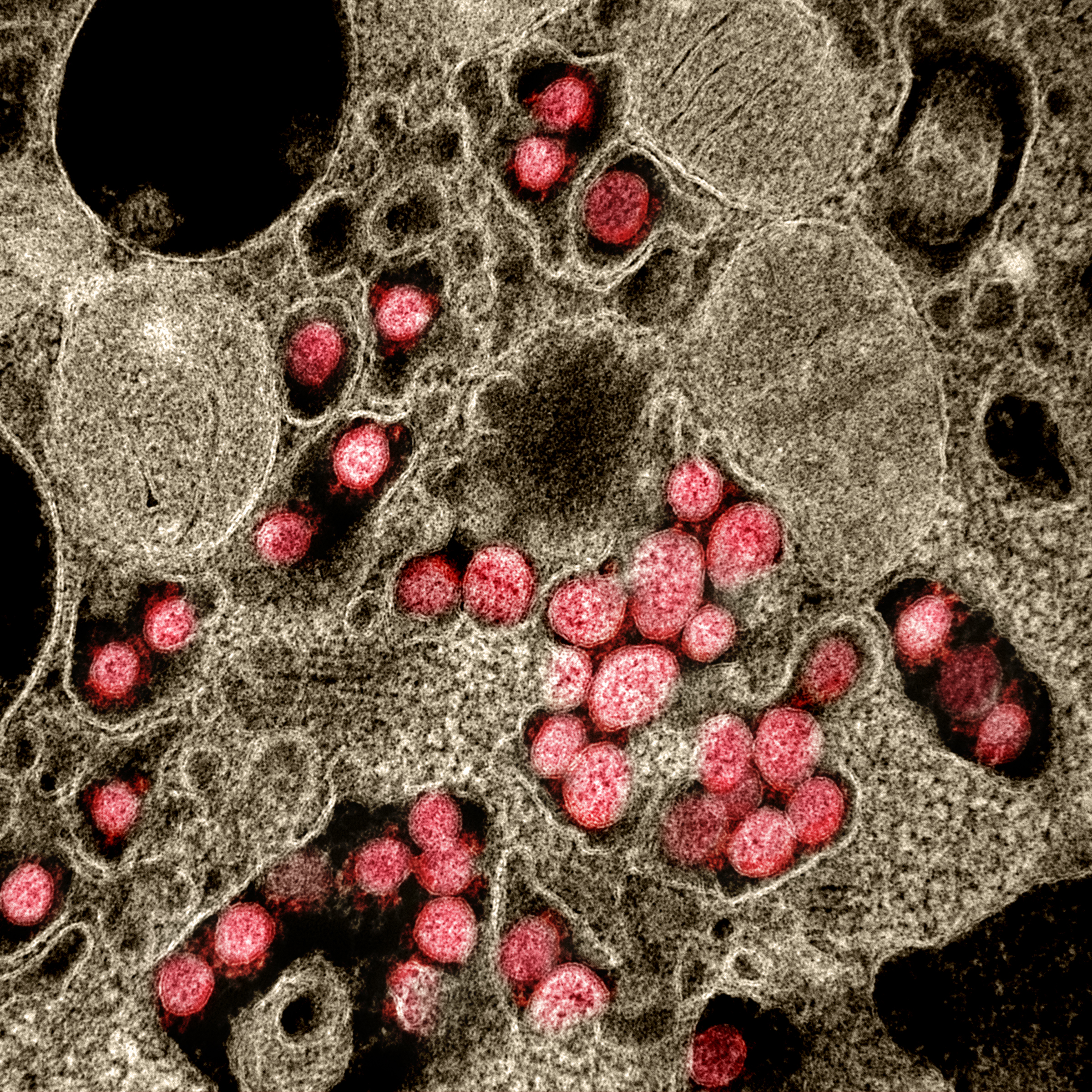 Transmission electron micrograph of SARS-CoV-2 virus particles, isolated from a patient. Image captured and color-enhanced at the NIAID Integrated Research Facility (IRF) in Fort Detrick, Maryland. Credit: NIAID